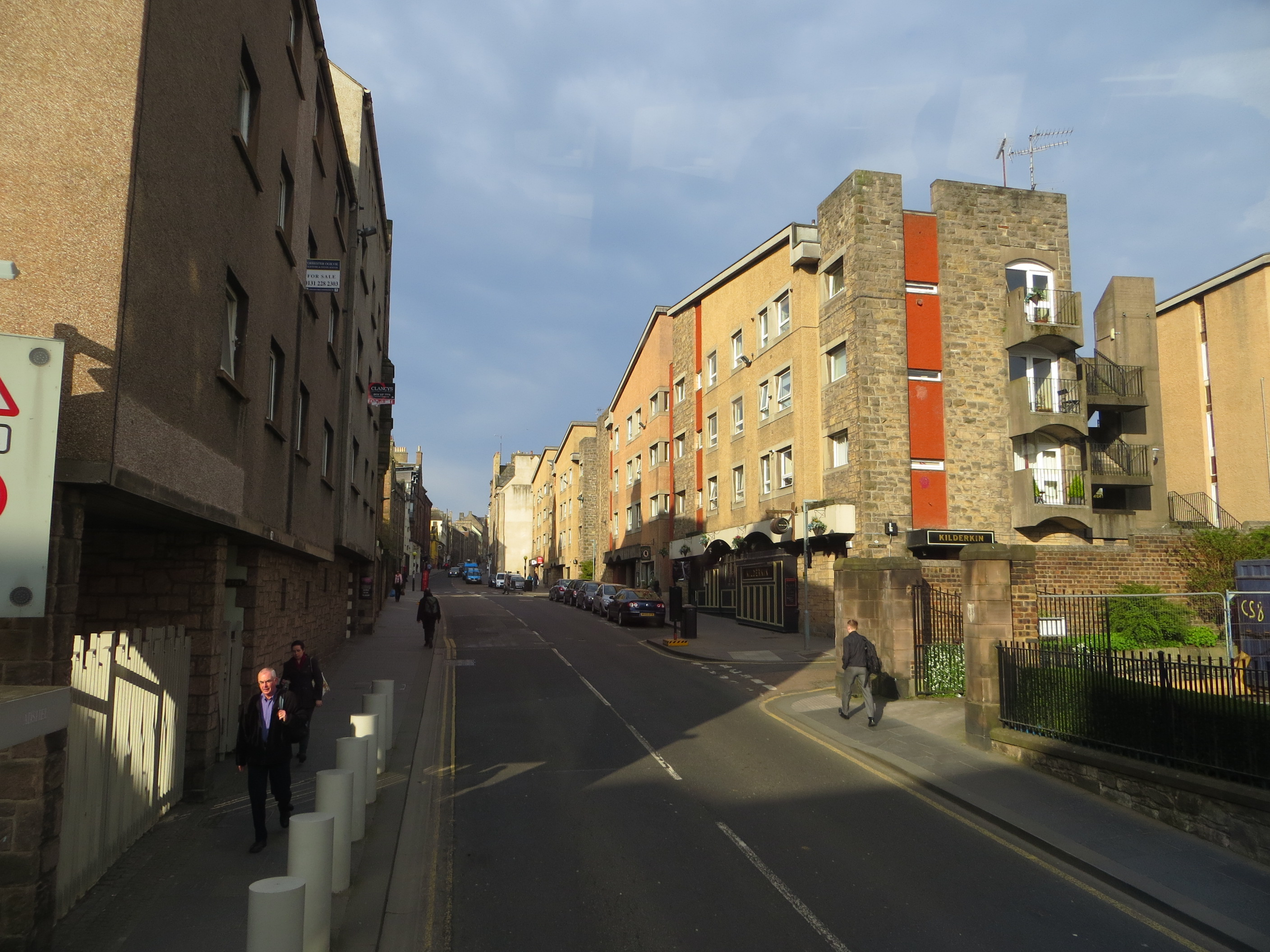 from a 35 LRT bus